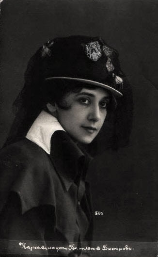 Photo of Tamara Platonovna Karsavina, Grand Ballerina of the Tsar's Imperial Ballet, and the Parisian Ballet Russe of Sergei Diaghilev. Taken by an unknown photographer in St. Petersburg, Russia, between 1910 - 1920.